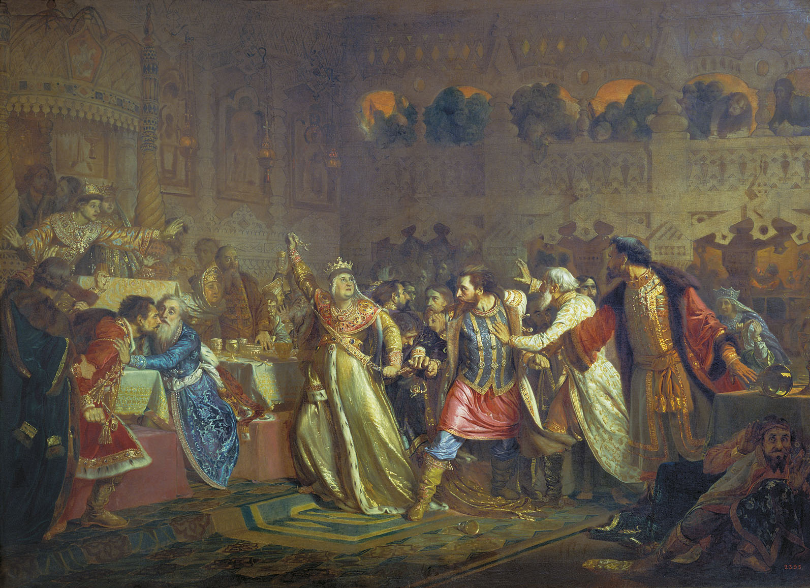 Grand Duchess Sophia Vitovtovna, Plucking the Belt of Vasili Kosoy At the Wedding of Vasili Tyomny